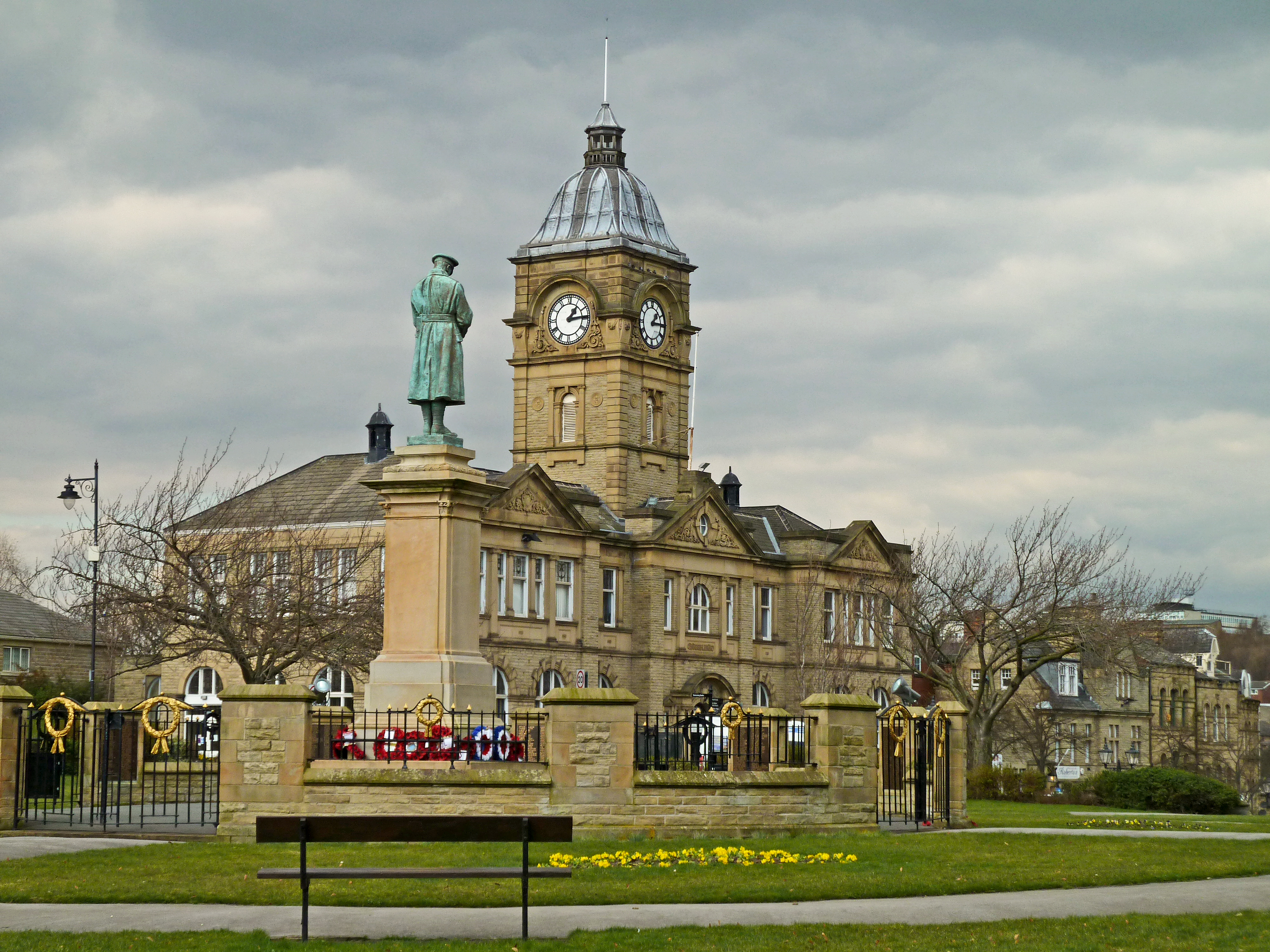 Carnegie Library, Batley, West Yorkshire, England